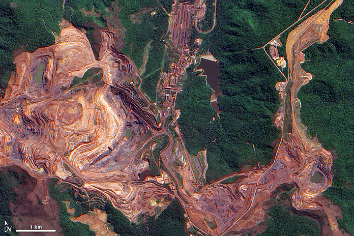 NASA image created by Jesse Allen, using EO-1 ALI data provided courtesy of the NASA EO-1 Team. Caption by Holli Riebeek. Instrument: EO-1 - ALI